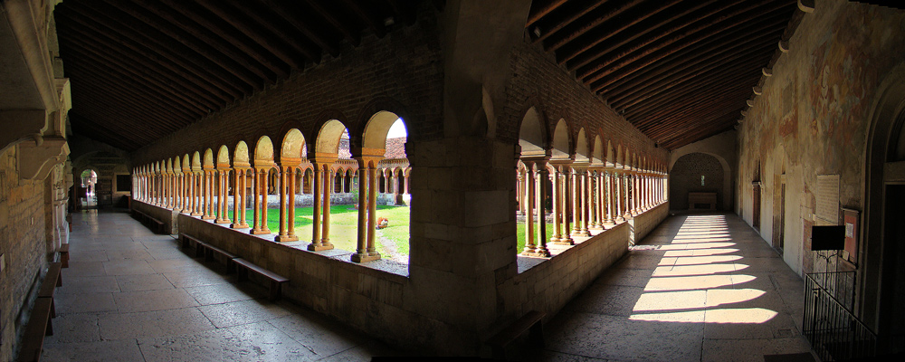 Basilica di San Zeno, Verona, Veneto, Italy. Cloisters.